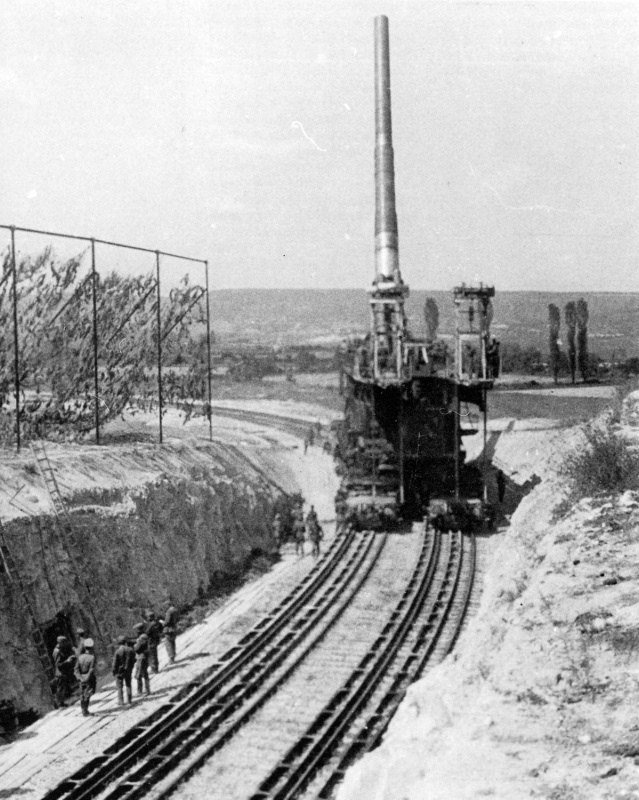 Railway Gun